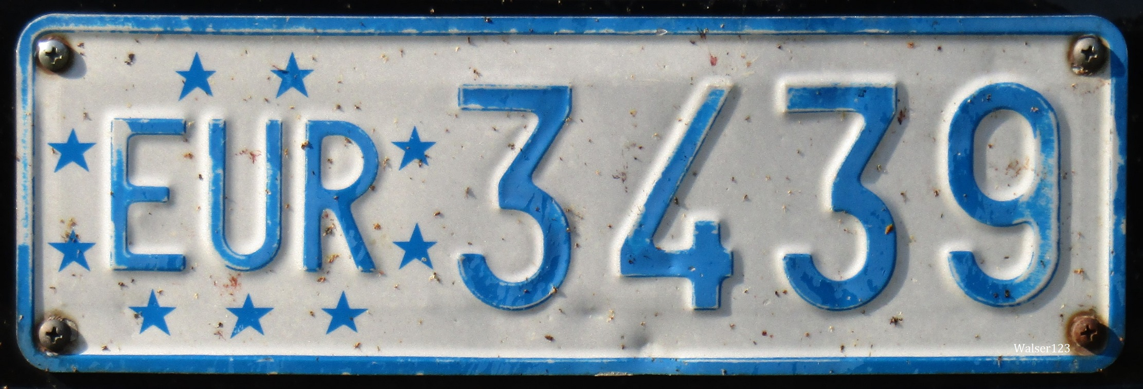 1975-2000 EU license plate, seen in Feldkirch, Austria